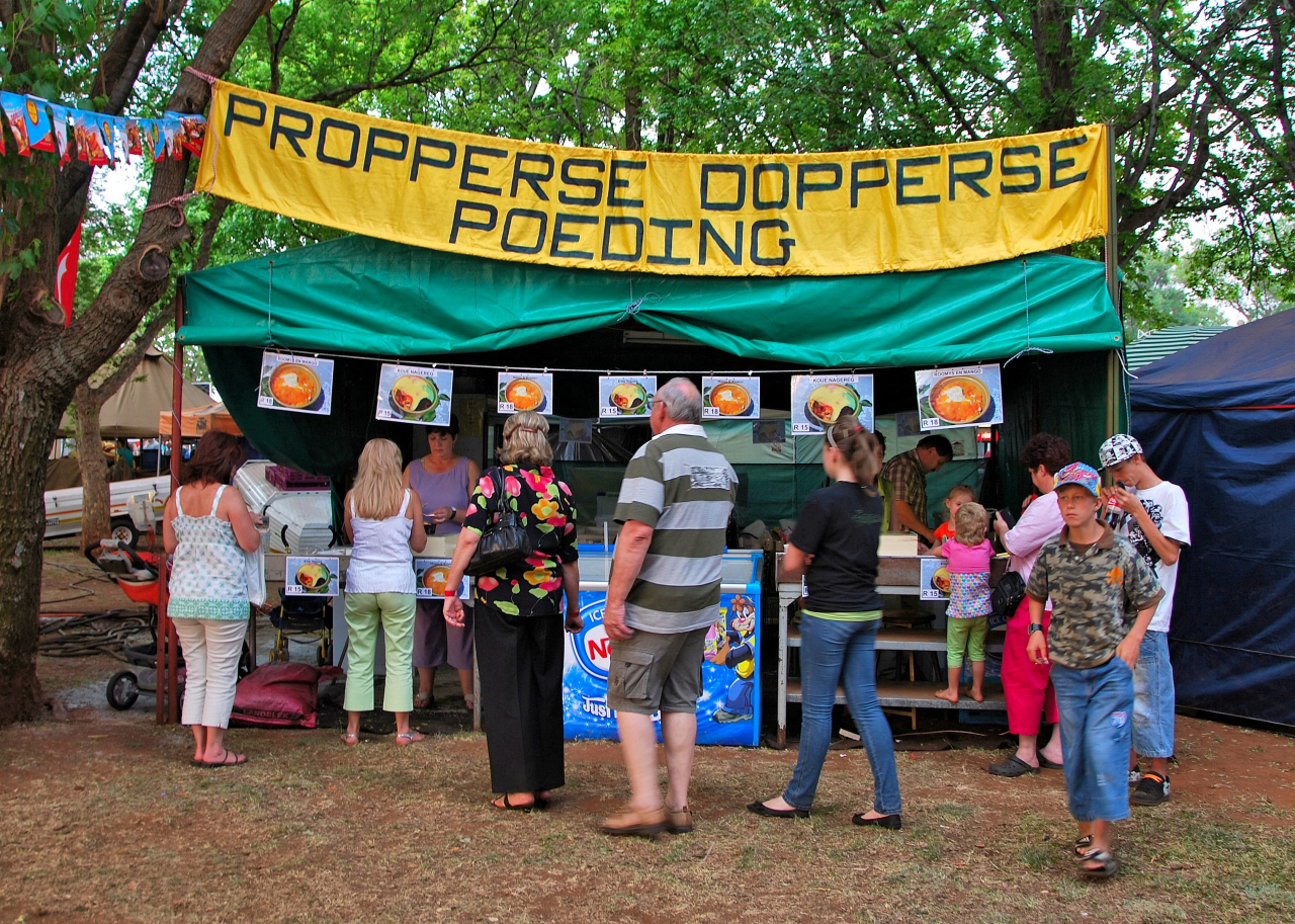 A typical food stall at the annual Aardklop Festival in Potchefstroom This is an image of food from South Africa